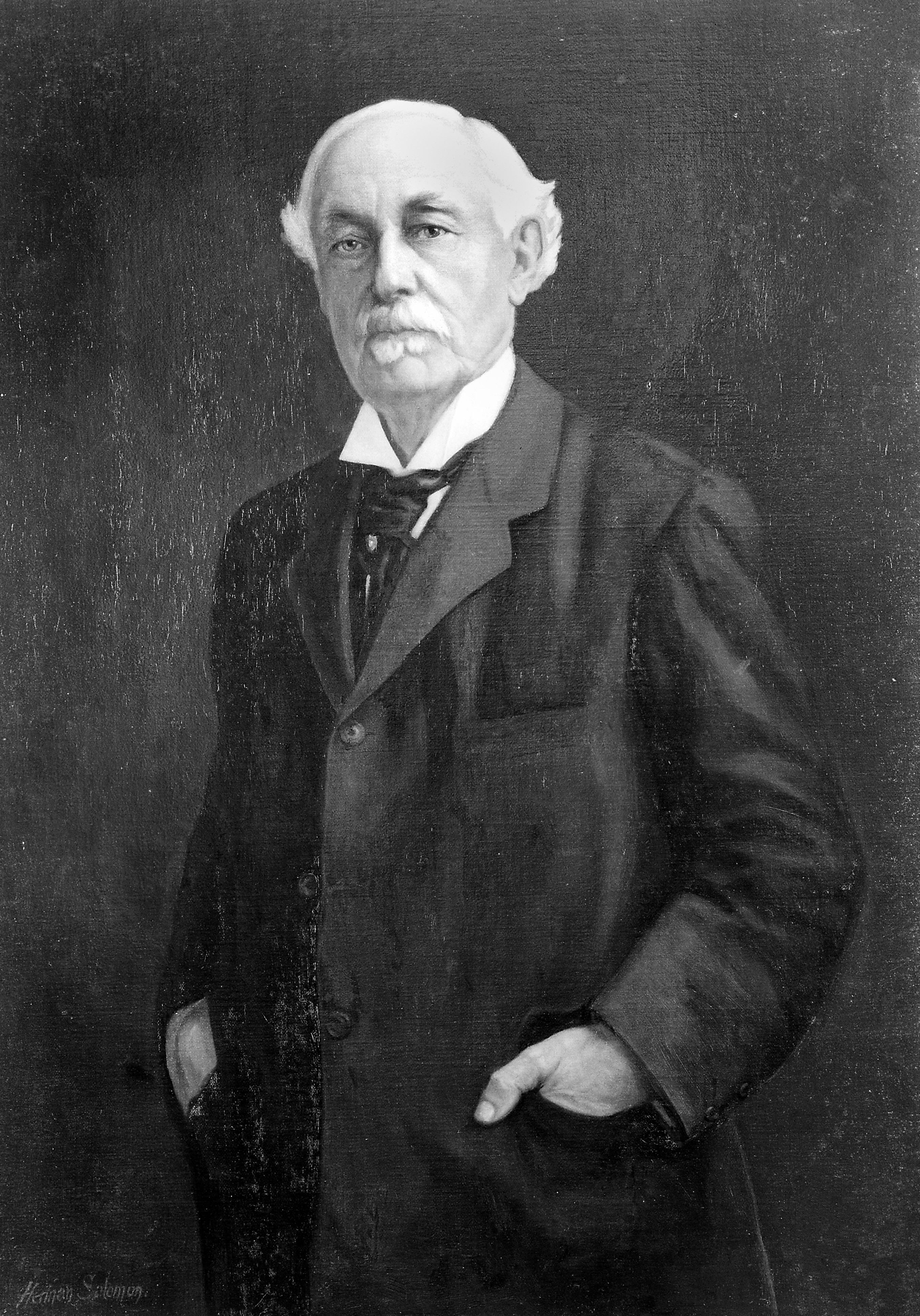 Sir William Tilden (1842-1926), chemist. Oil painting by Harry Herman Salomon after a photograph.